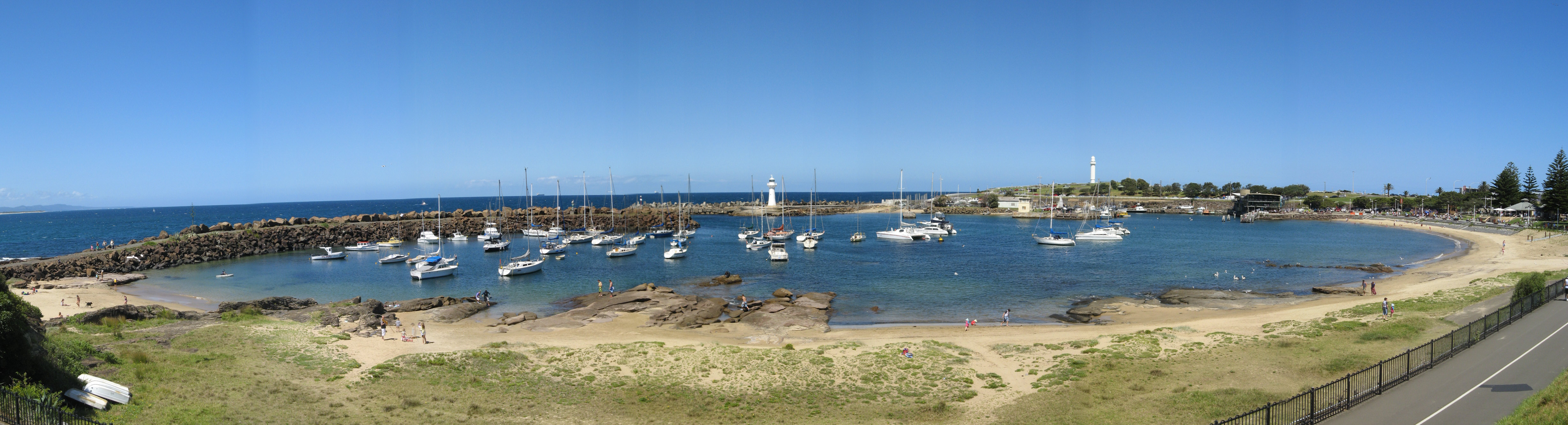 A panoramic view of Wollongong Harbour, New South Wales, Australia. On the left, the northern breakwater protects the private fleet in the foreground. On the opposite side of the harbour entrance is the historic Breakwater Lighthouse, and part of the inner Belmore Basin housing the commercial fishing fleet can be seen. In the middle distance is the Wollongong Head Lighthouse on Flagstaff Hill / Flagstaff Point. The flat roofed grey building to the right is the Fisherman's Co-Op and a restaurant.